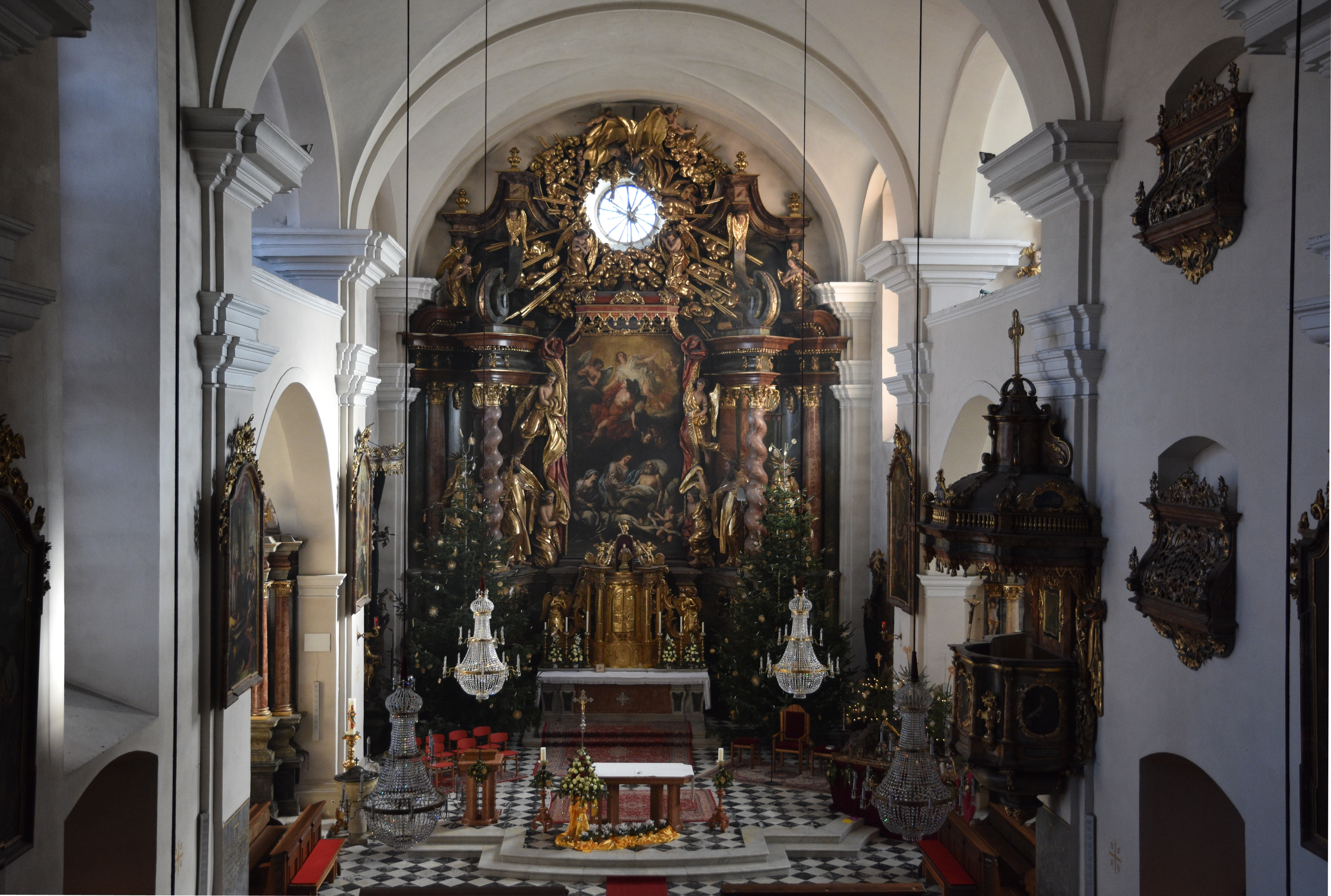 Church Stadtpfarrkirche Voitsberg Interior